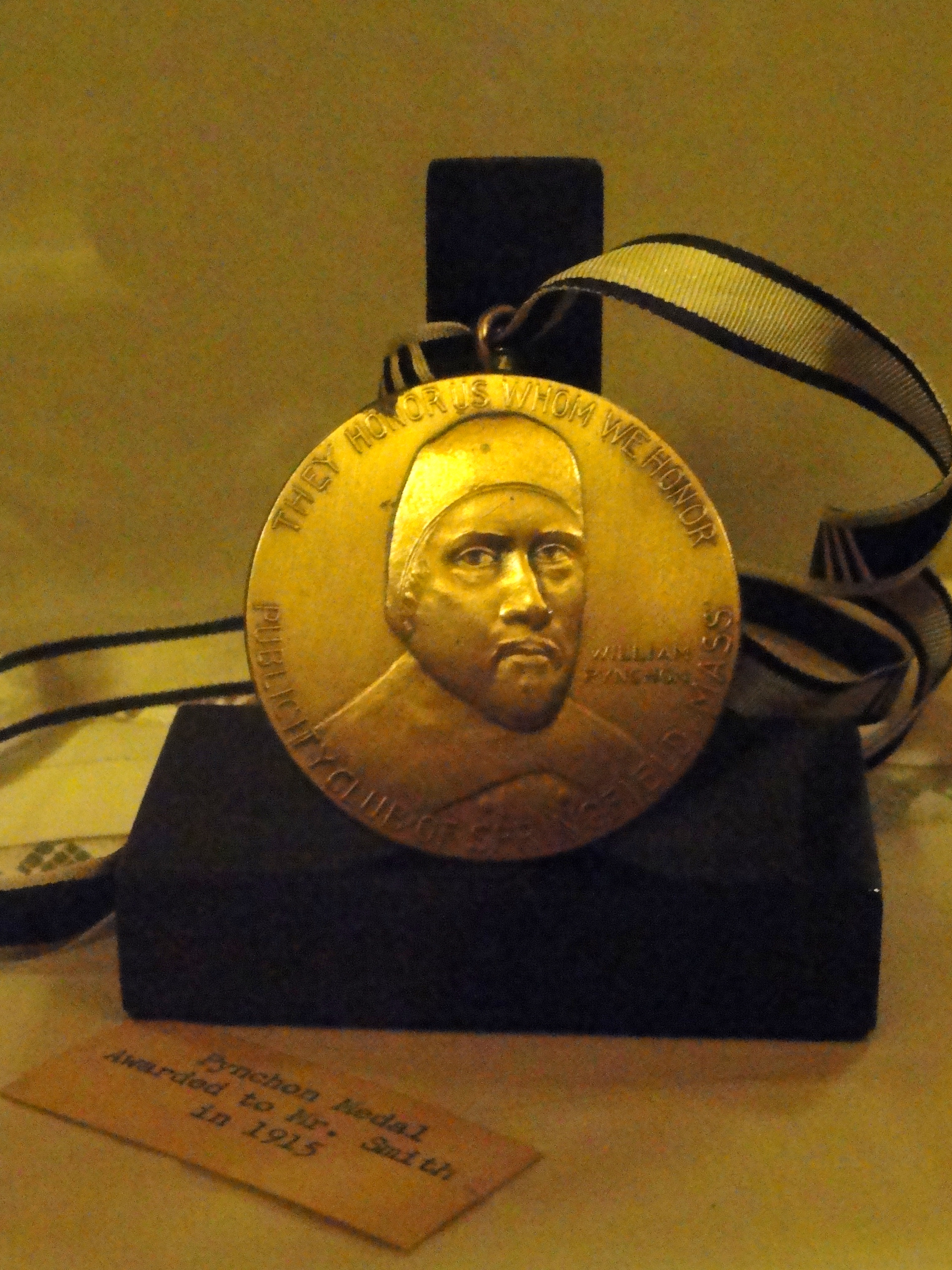 Pynchon Medal awarded to Mr. Smith in 1915. Medal contains a relief bust of William Pynchon with inscription "THEY HONOR US WHOM WE HONOR / PUBLICITY CLUB OF SPRINGFIELD, MASS.". Exhibit in the George Walter Vincent Smith Art Museum, 21 Edwards Street, Springfield, Massachusetts, USA. This item is old enough so that it is in the public domain. The museum permitted photography without restriction.